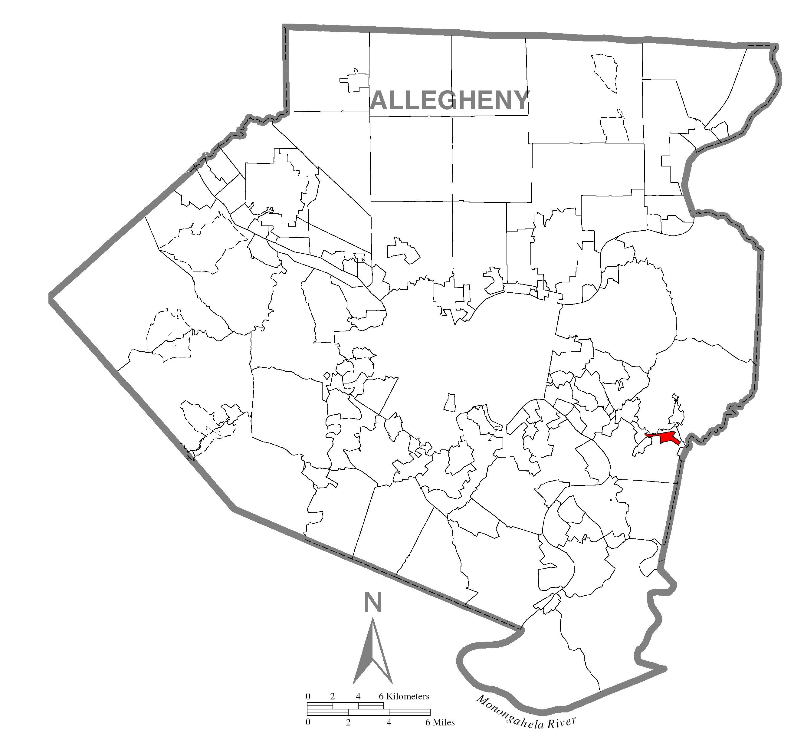 A map of Allegheny County showing Wall, Pennsylvania (alternate) highlighted on the map.